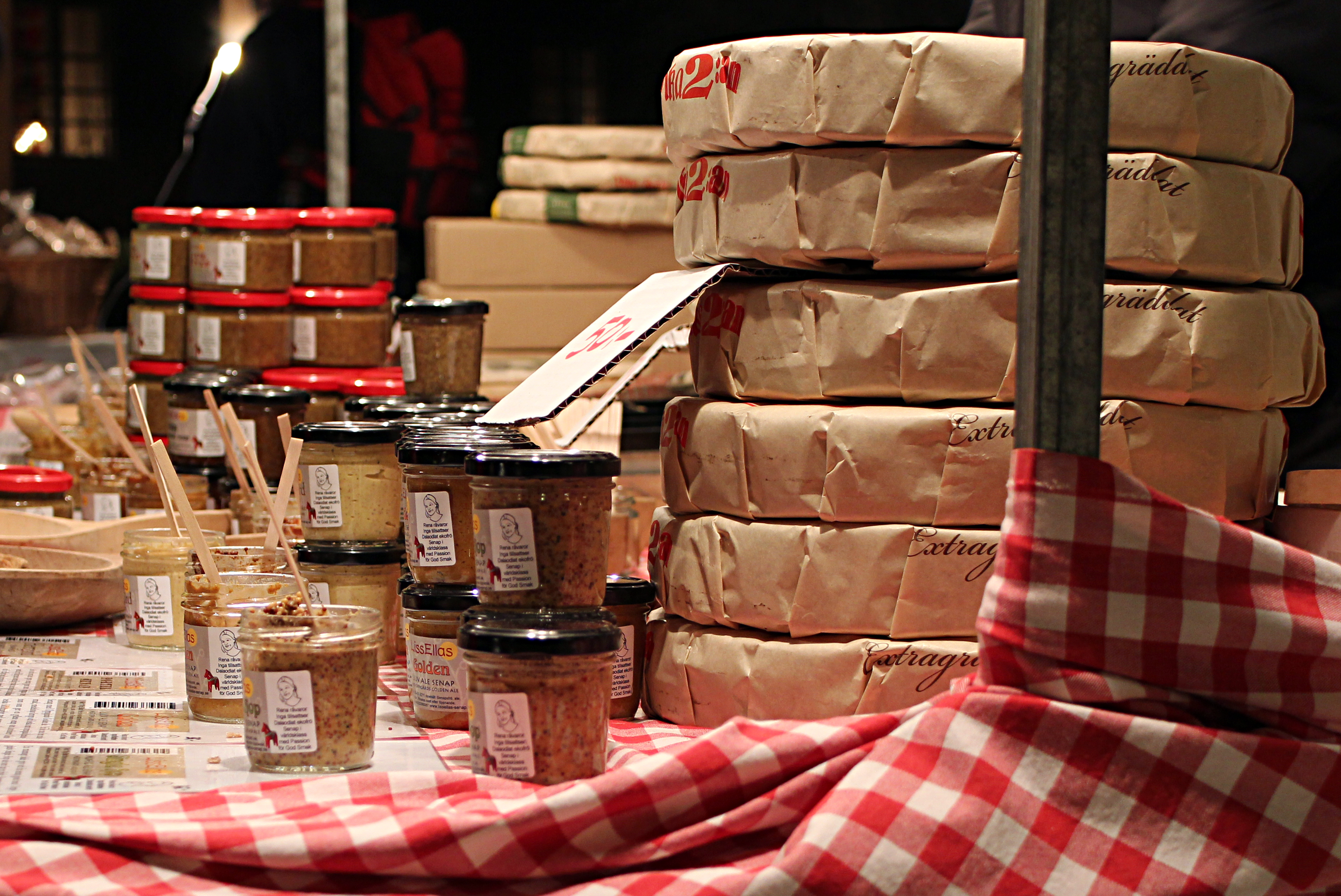 Price-winning mustard (seval gold, silver and bronze medals in World Wide Mustard Competition) from Liss-Ellas (Garpenberg, Hedemora Municipality) and Swedish crispbread Vikabröd from Vika bröd (Stora Skedvi, Säter Municipality). Säter "Christmas market" the first Advent sunday.